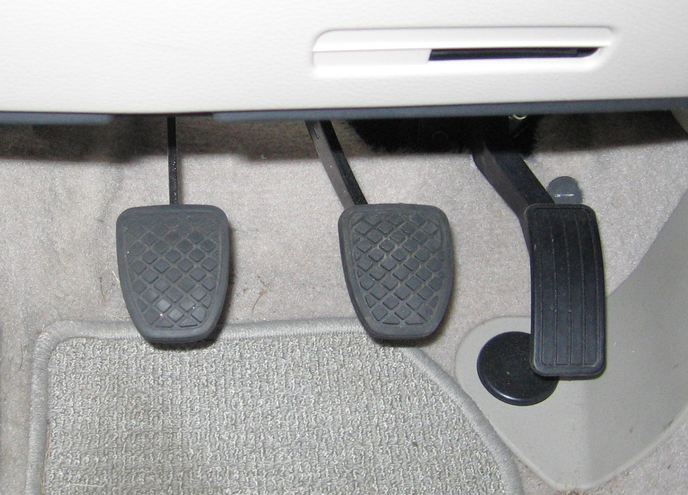 Photo showing the pedals of my car for use in the article on manual transmissions.